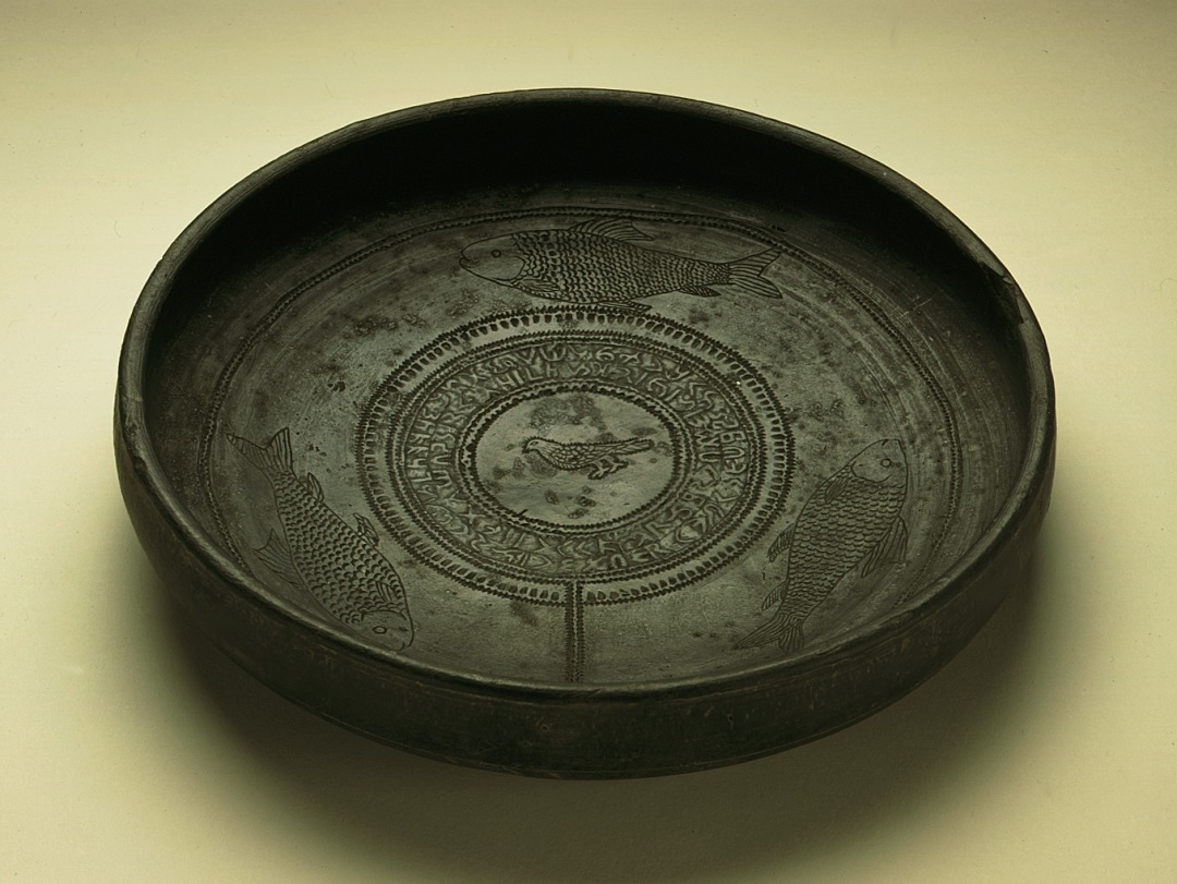 India, West Bengal, Chandraketugarh region, circa 1st century B.C. - 1st century A.D. Furnishings; Serviceware Black-slipped gray ware 1 3/4 x DIAM: 9 1/2 in. (4.45 x 24.13 cm) Purchased with funds provided by The Hillcrest Foundation, the Southern Asian Art Council, John Eskenazi in honor of Dr. Pratapaditya Pal, Daniel Ostroff, and the South and Southeast Asian Acquisition Fund (AC1996.54.1) South and Southeast Asian Art